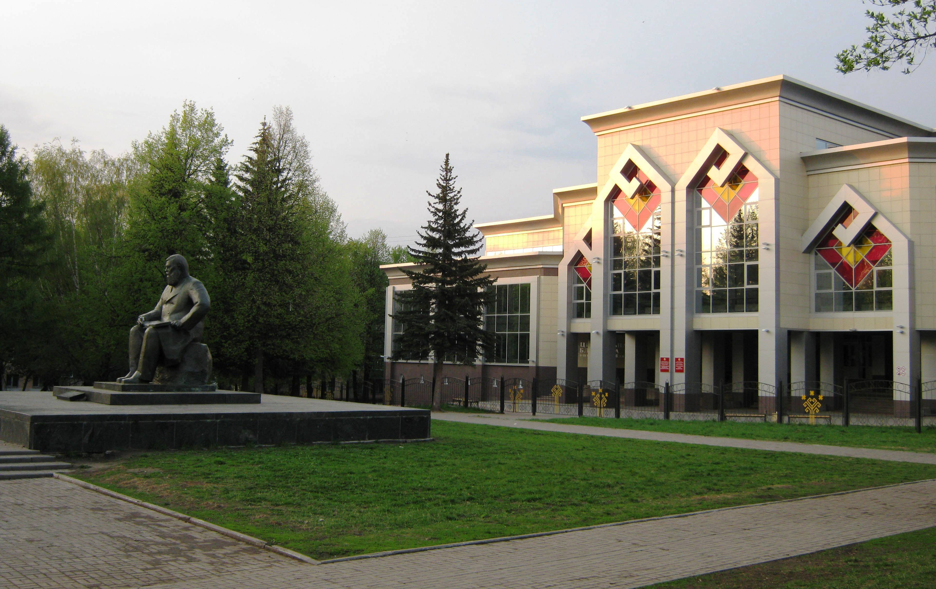 Cheboksary National Library